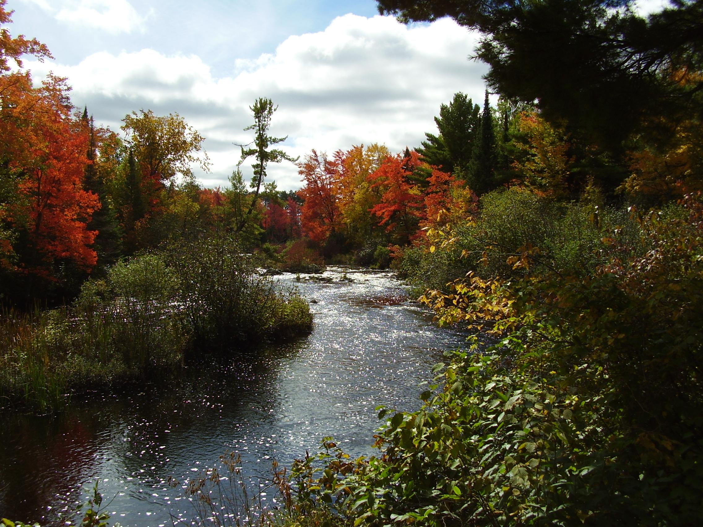 Willow River, Town of Lynne, Wisconsin, near the rapids.